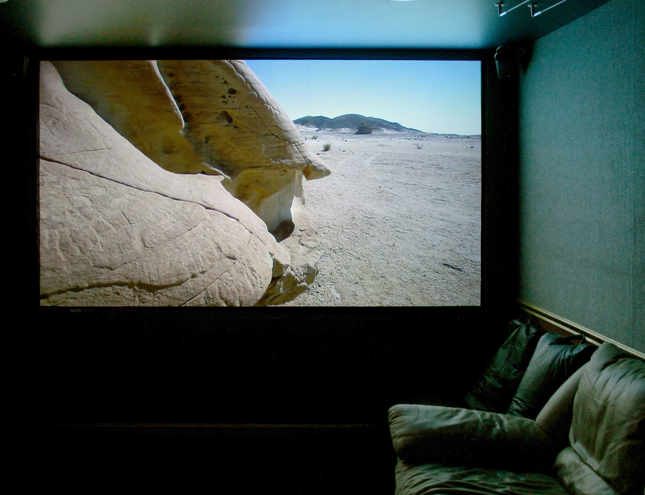 "Projection screen in a home theater, displaying a high-definition television image. This screen is 119 in. diagonal in a fixed frame." Lighten and cut my version Derek Jensen's photo.